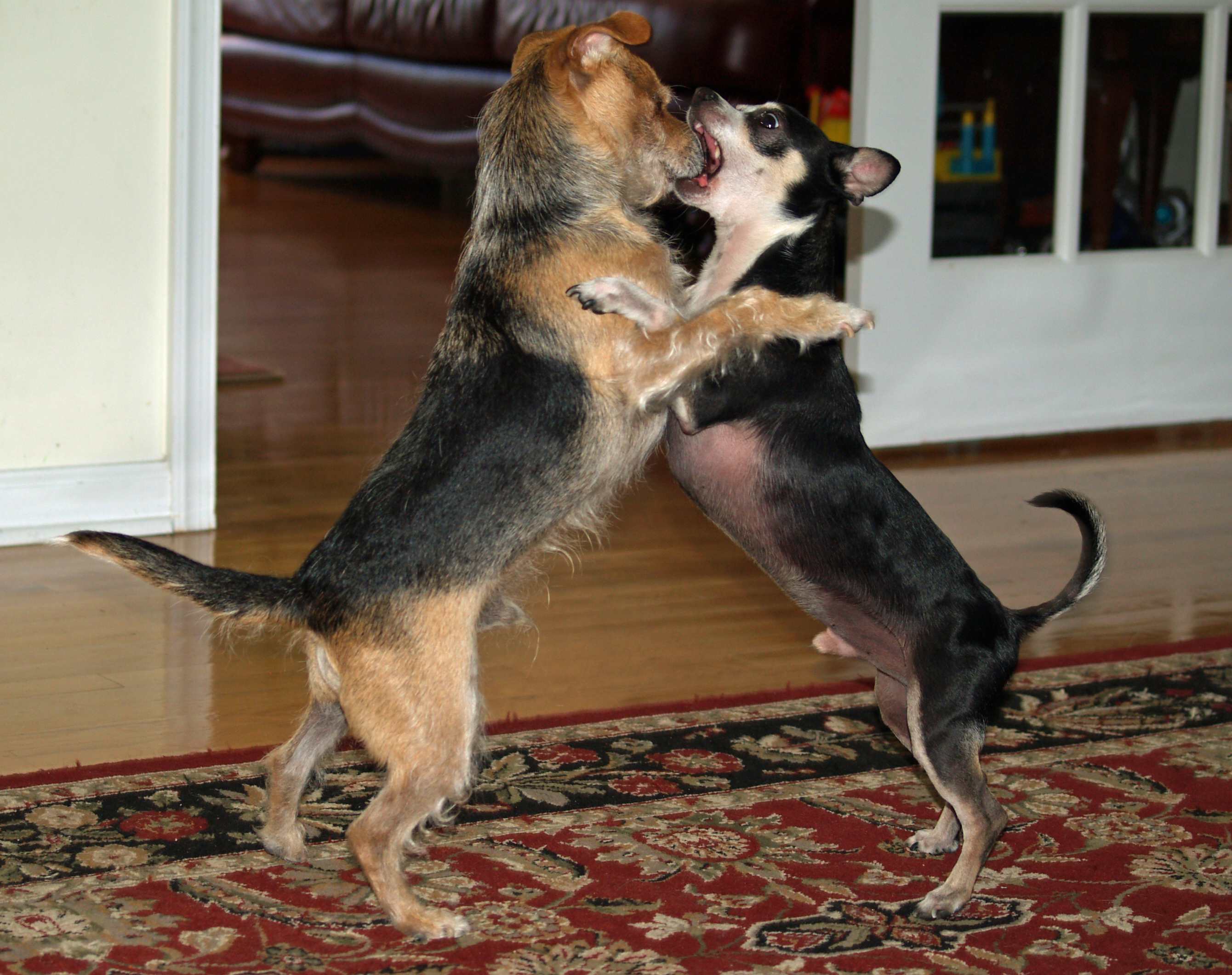 Dogs roughhousing